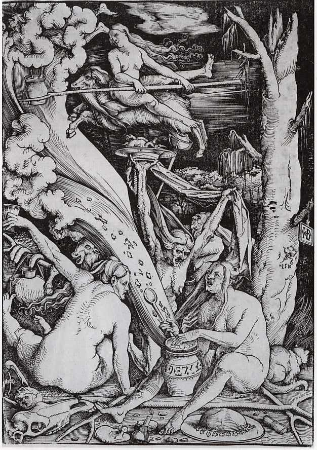 The witches